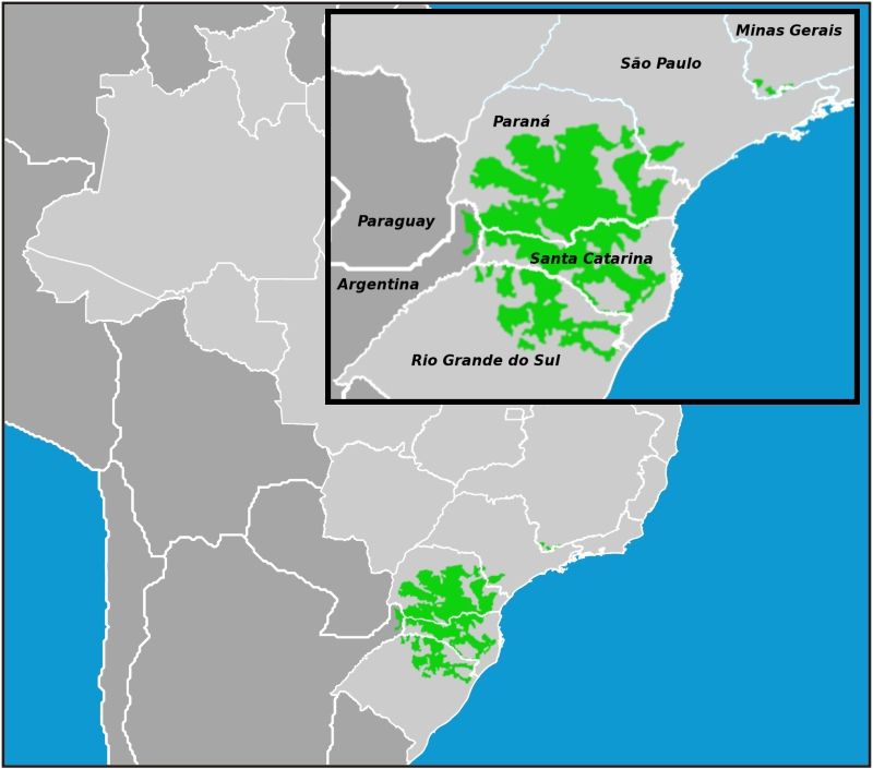 Map of Brazilian Araucaria moist forests.